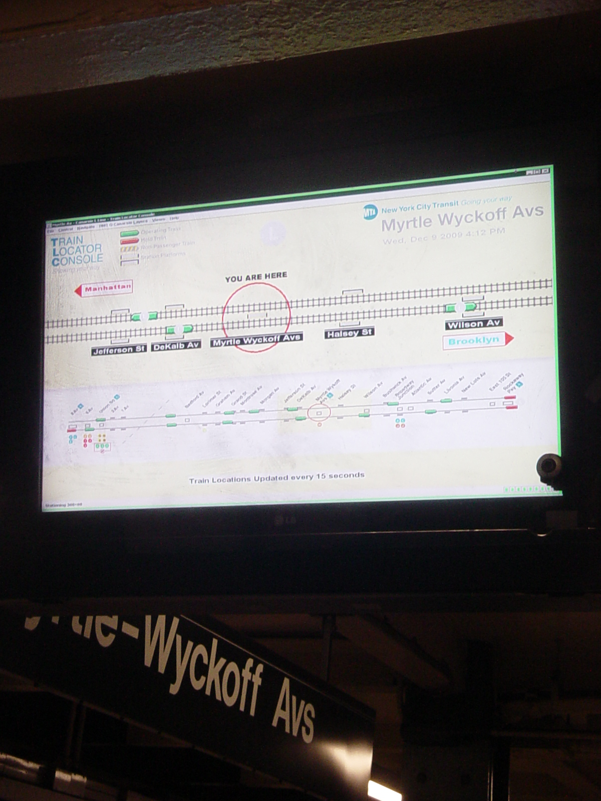 "Train Locator Console" screen at the Myrtle–Wyckoff Avenues (BMT Canarsie Line) station platform showing where trains are. MTA installed the console at the station in 2009 as part of a pilot program.